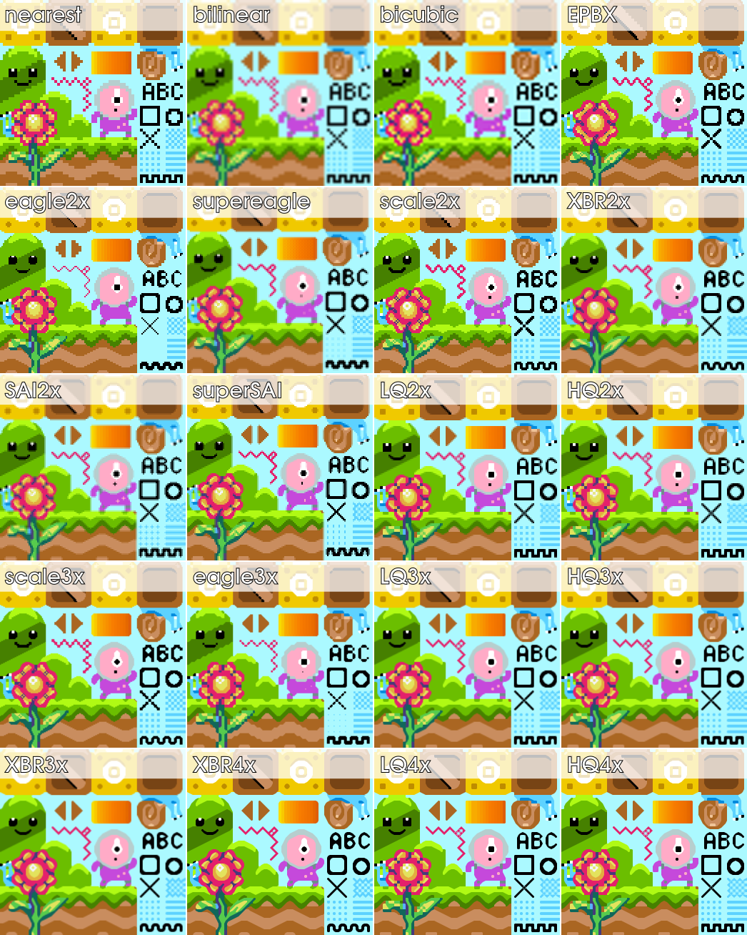 The same image upscaled four times using different algorithms, using Image Resizer​ program. The 3x versions are additionally upscaled using linear interpolation in order to fit the grid. The art was made from two CC0 pixel art images found at open game art website.